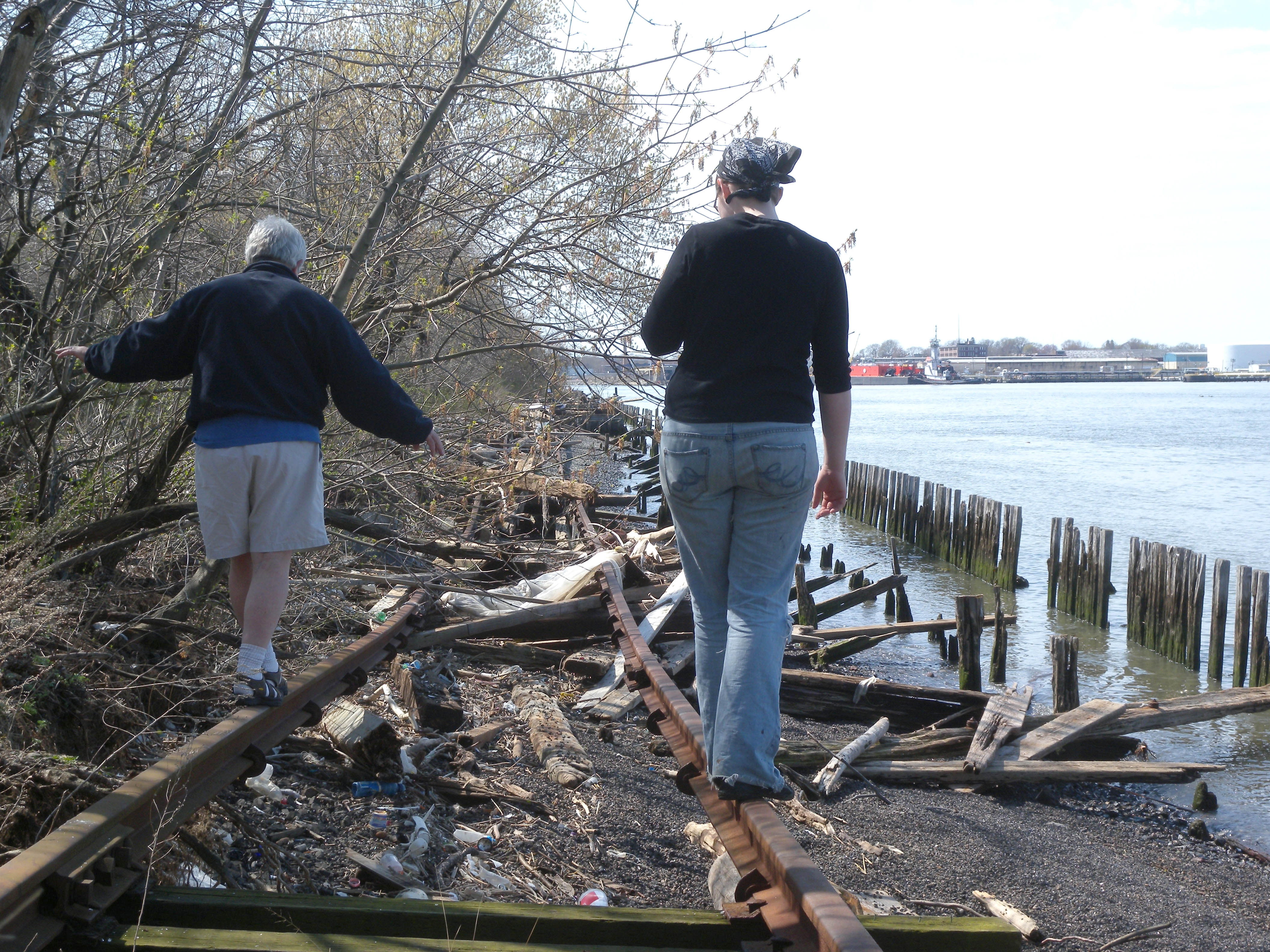 Looking west at abandoned rail line sliding into Kill Van Kull on a sunny midday.